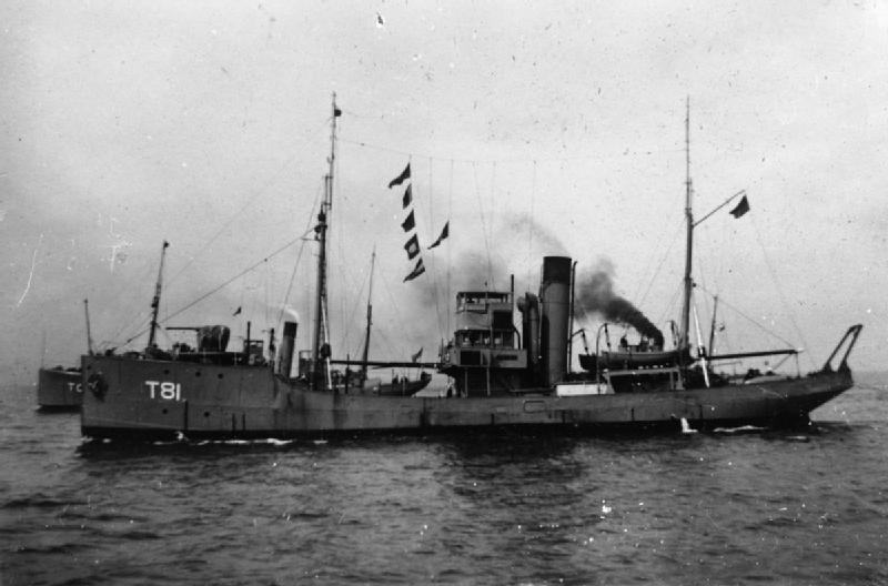 Hmt Liffey Underway.